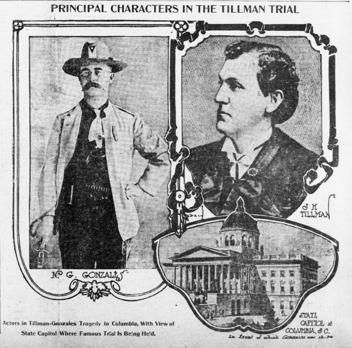 Principal Characters in the Tillman Trial: Narciso Gener Gonzales, James H. Tillman, and the State Capital building of Columbia, South Carolina, in front of which Tillman shot Gonzales.